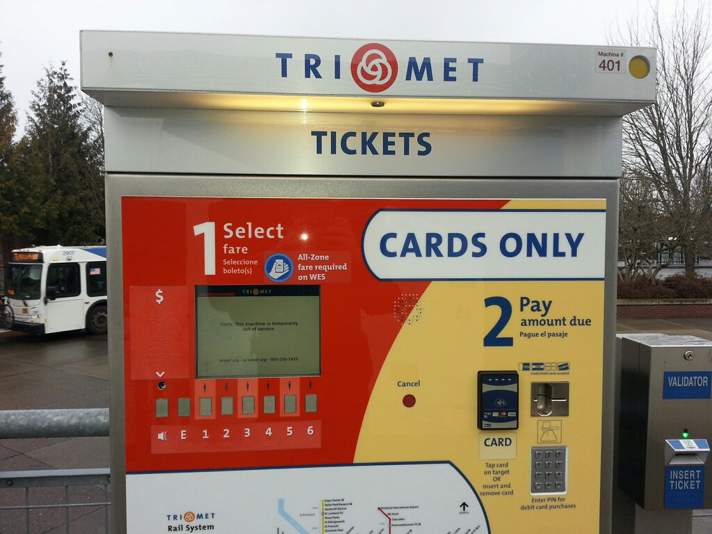 A TriMet ticket machine that has broken down